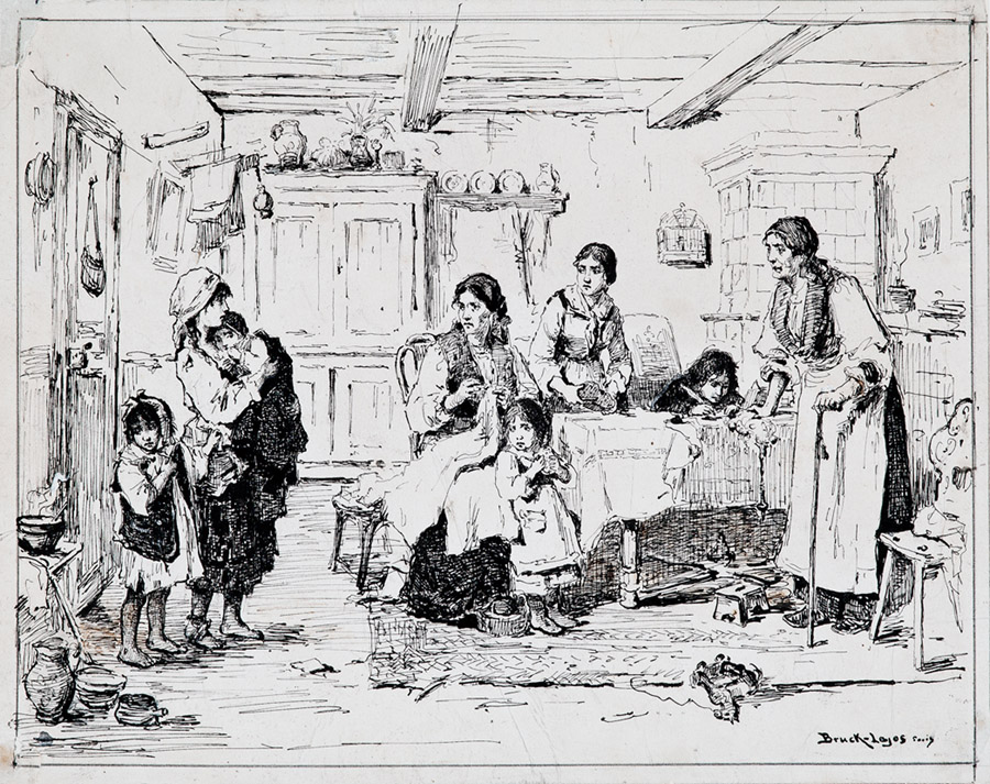 The subject appears to be a rural family confronted by begging children.